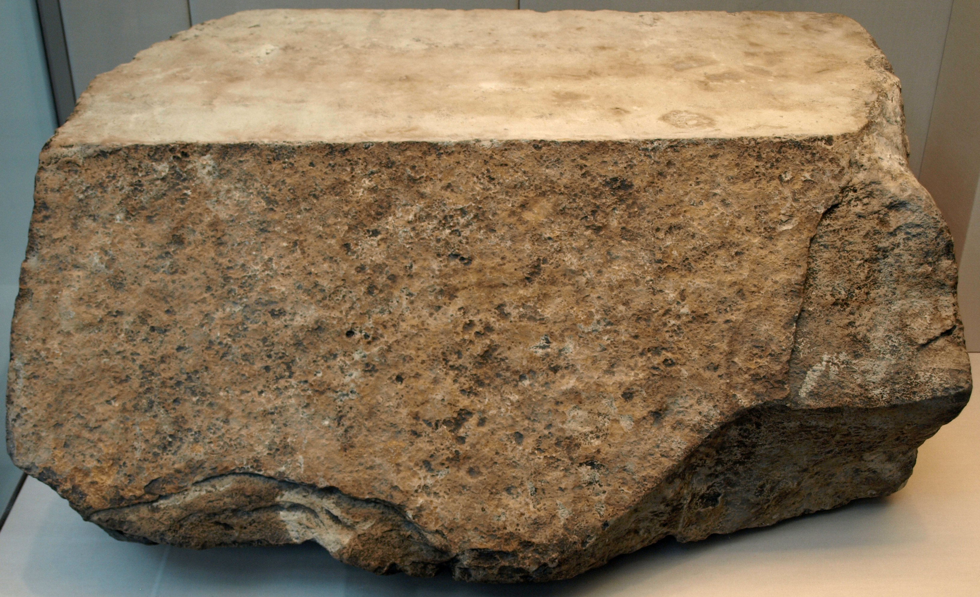 One of the original casing stones for the Great Pyramid (circa 2570 BC), most of which were removed during medieval times. This block was found in the rubble surrounding the pyramid. EA 490.